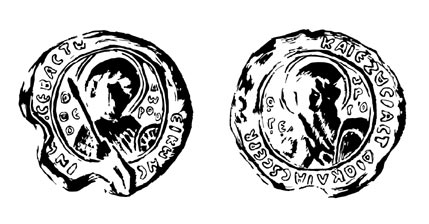 Seal of Constantine Bodin.[1] ↑ Jean-Claude Cheynet, „La place de la Serbie dans la diplomatie Byzantine à la fin du XI e siècle“, Zbornik radova Vizantološkog instituta , XLV, Beograd, 2008, 89–9[1], (Please provide a date or year)